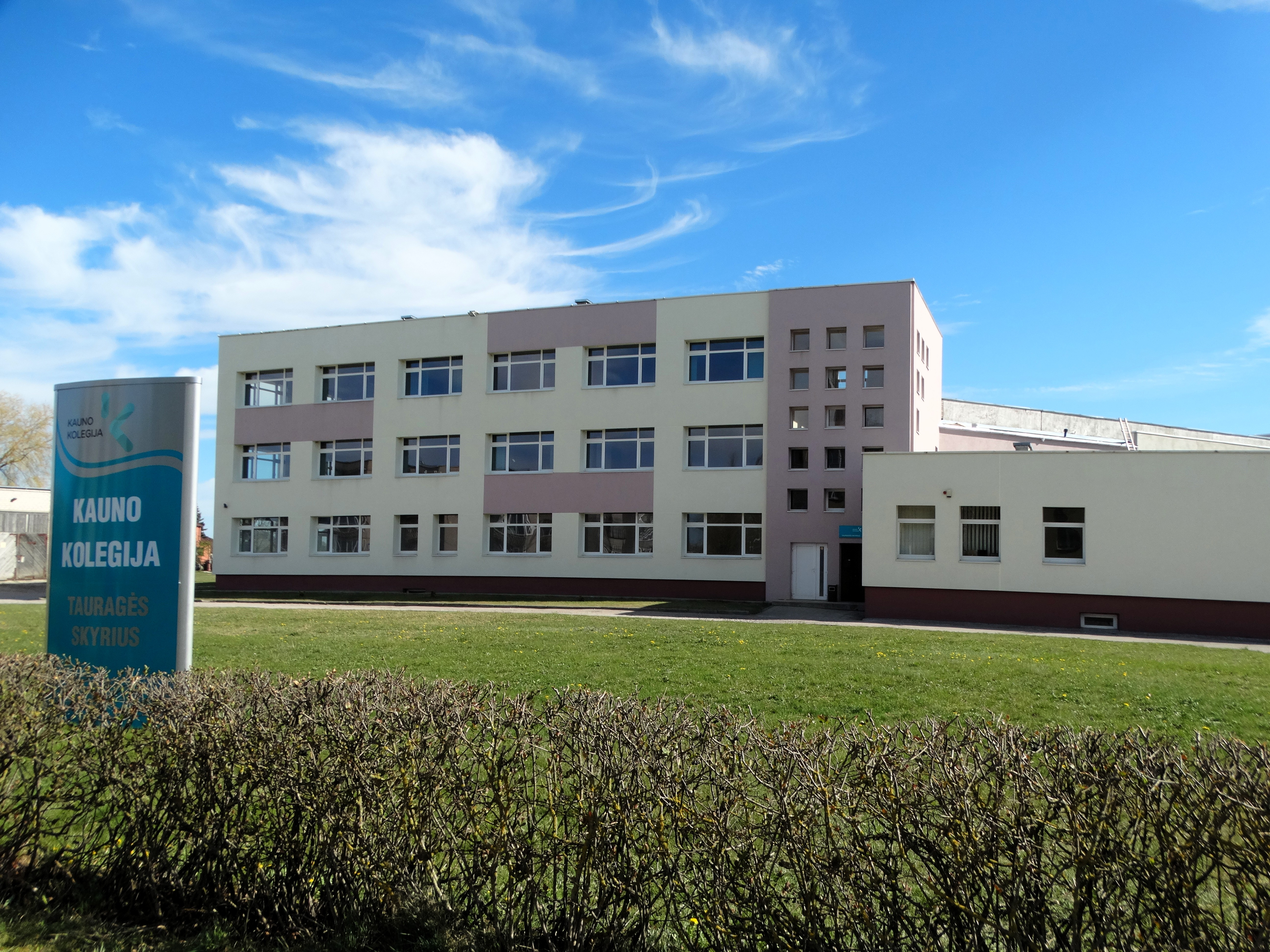 Department of Kaunas College, Tauragė, Lithuania